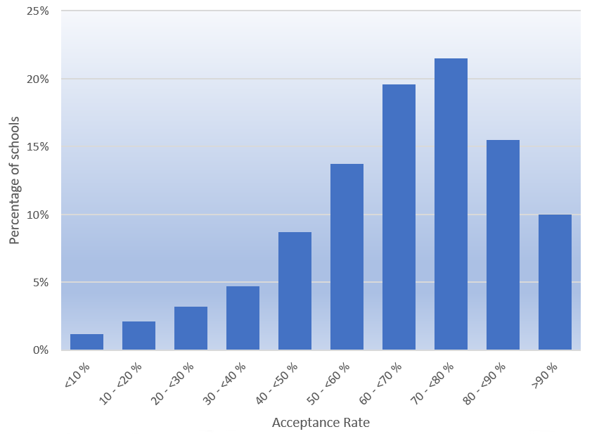 data